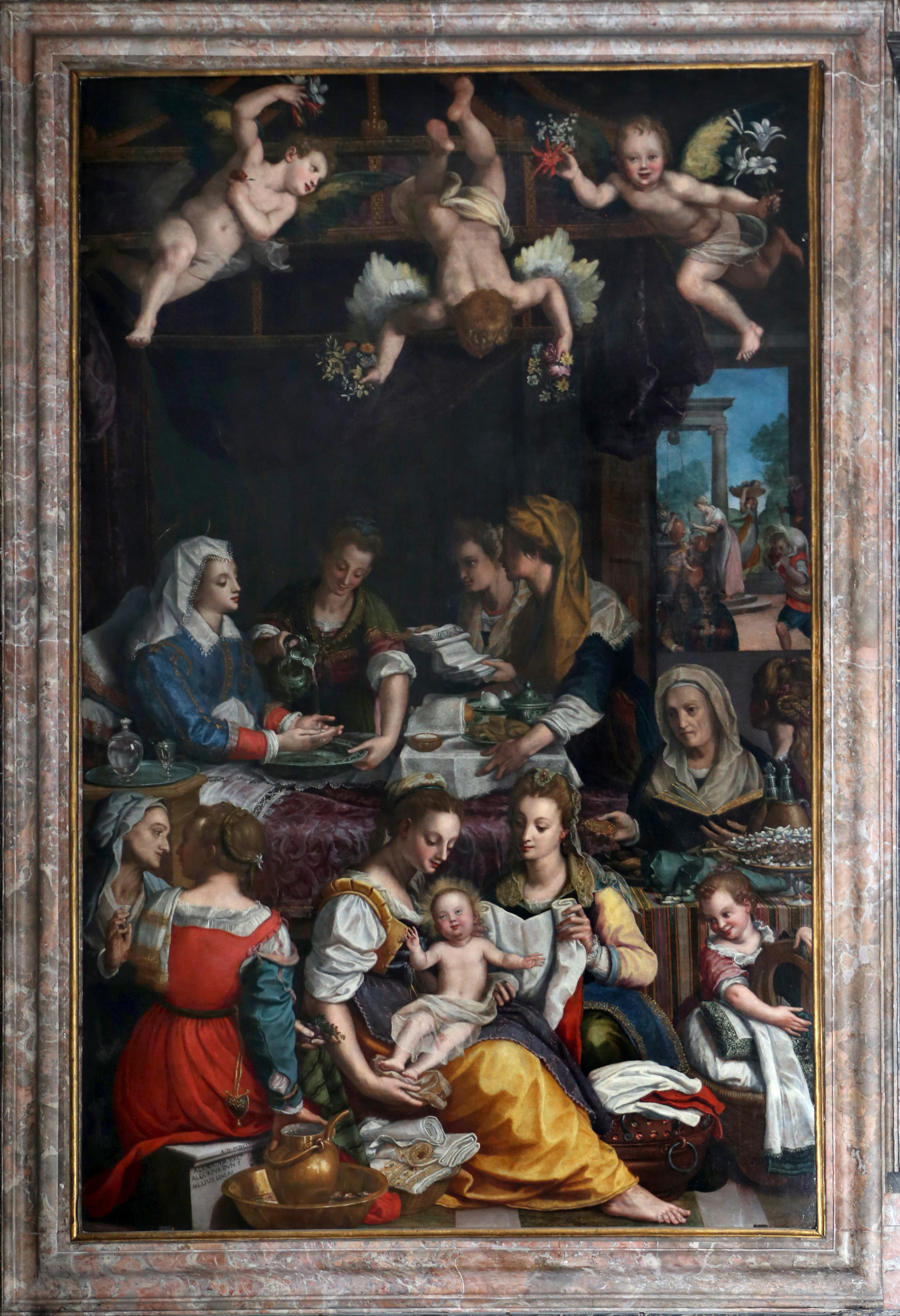 Birth of the Virgin by Alessandro Allori